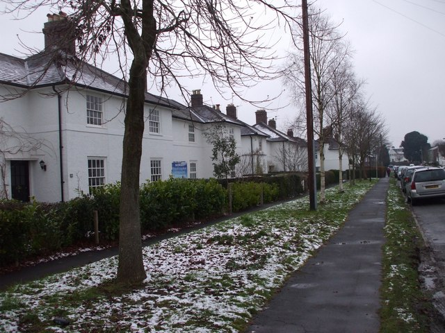 Houses in Pen-y-dre, Rhiwbina, Cardiff